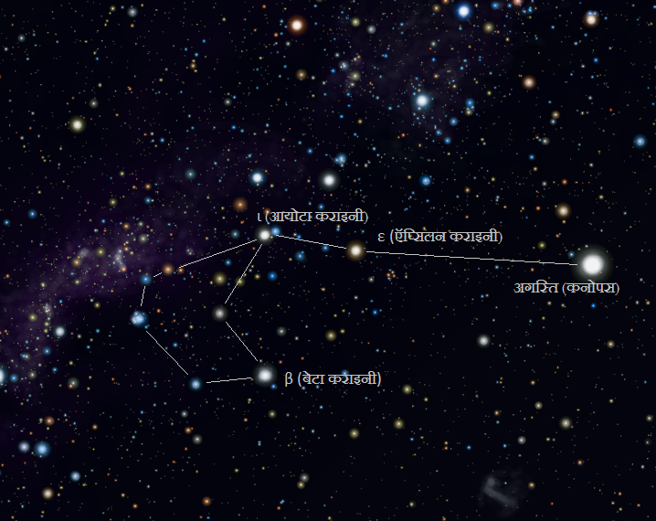 Image of Carina